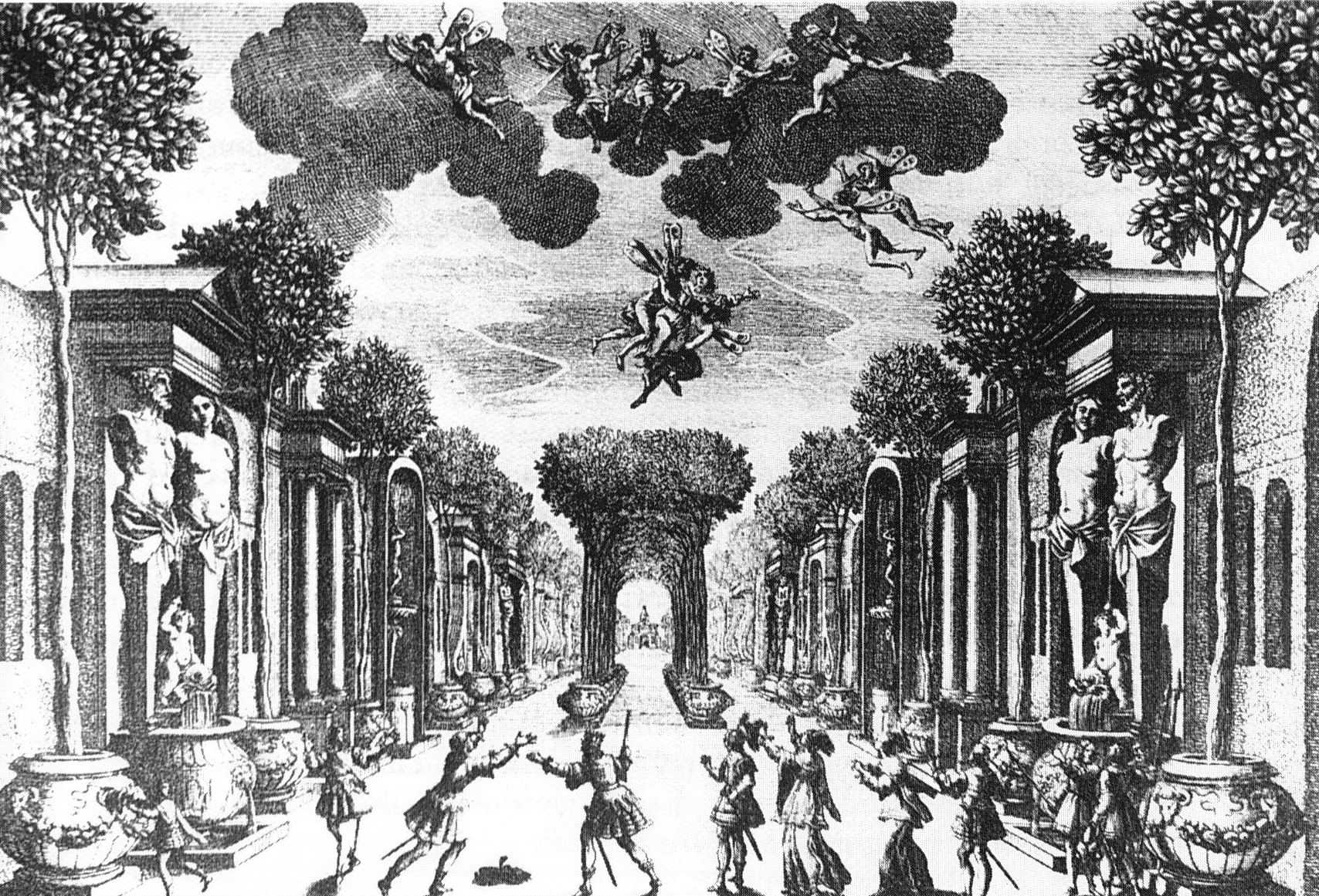 Francesco Cavalli - Ercole amante - act 3, scene 1 - stage setting by Carlo Vigarani - 1662